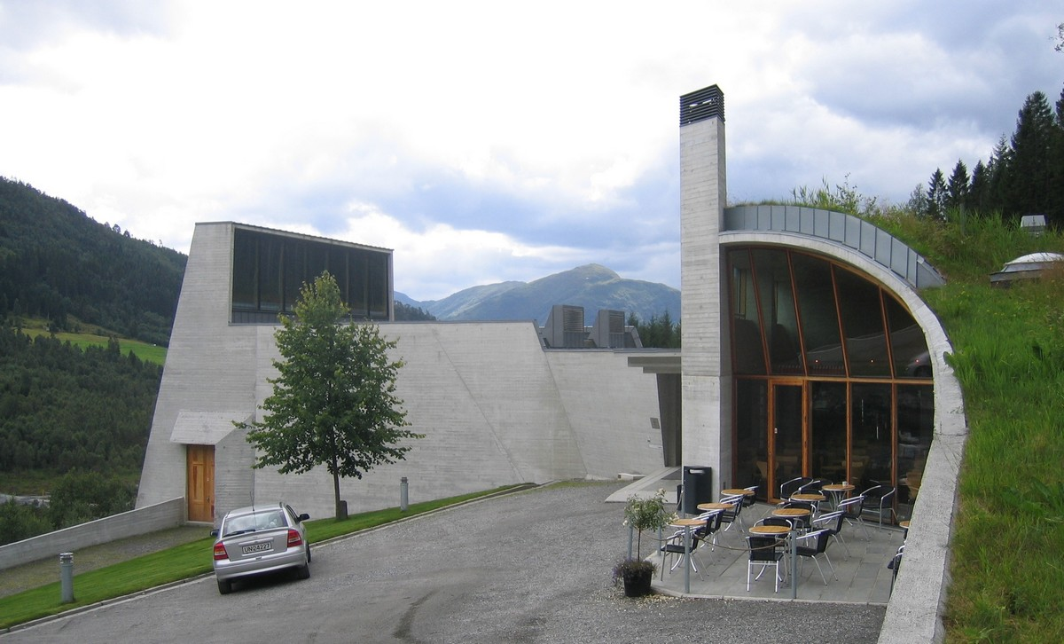 Ivar Aasen-tunet, Hovdebyga, Ørsta, Norway